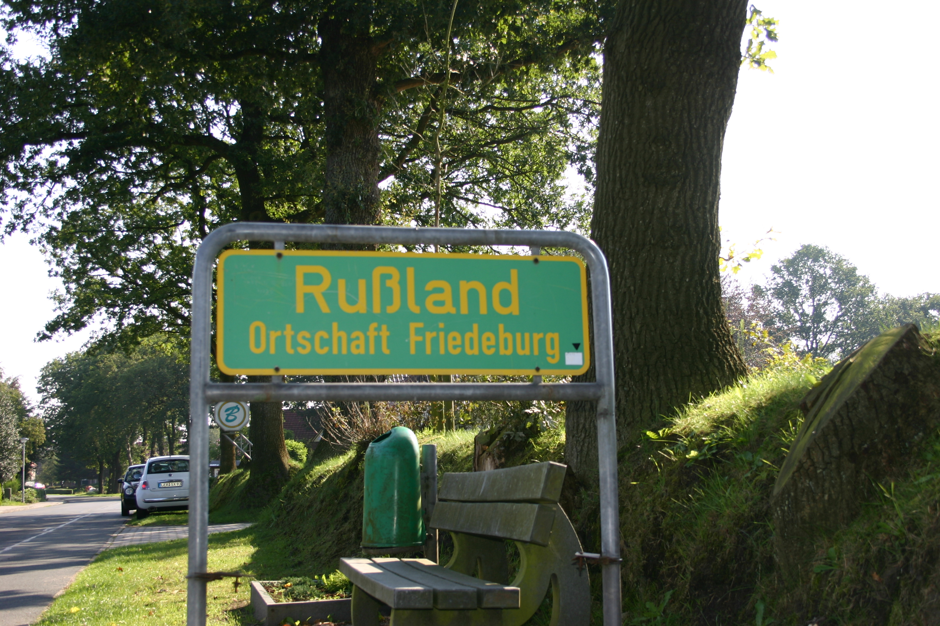 Signpost "Rußland" ( = Russia) in the community of Friedeburg, district of Wittmund, East Frisia, Germany